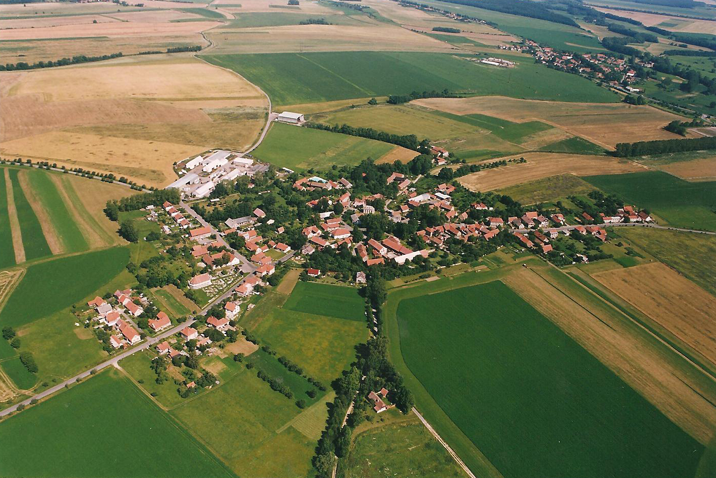 Air view on Czech village Bučina in Ústí nad Orlicí District, east Bohemia